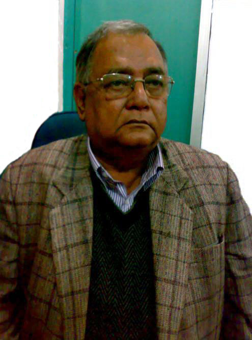 Bangladeshi film director-producer Matiur Rahman Panu in a film productions office at Kakrail, Dhaka on December 25, 2011.